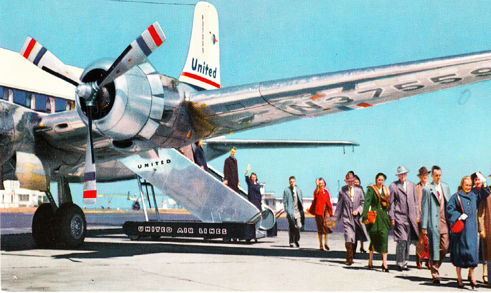 United Airlines Postcard "Only United Air Lines' spacious DC-6 and DC-6B Mainliners link the East and Midwest with the West and the entire Pacific Coast."